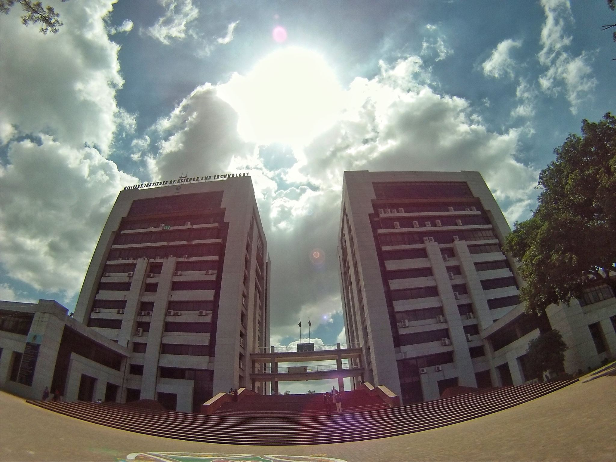 MIST Campus